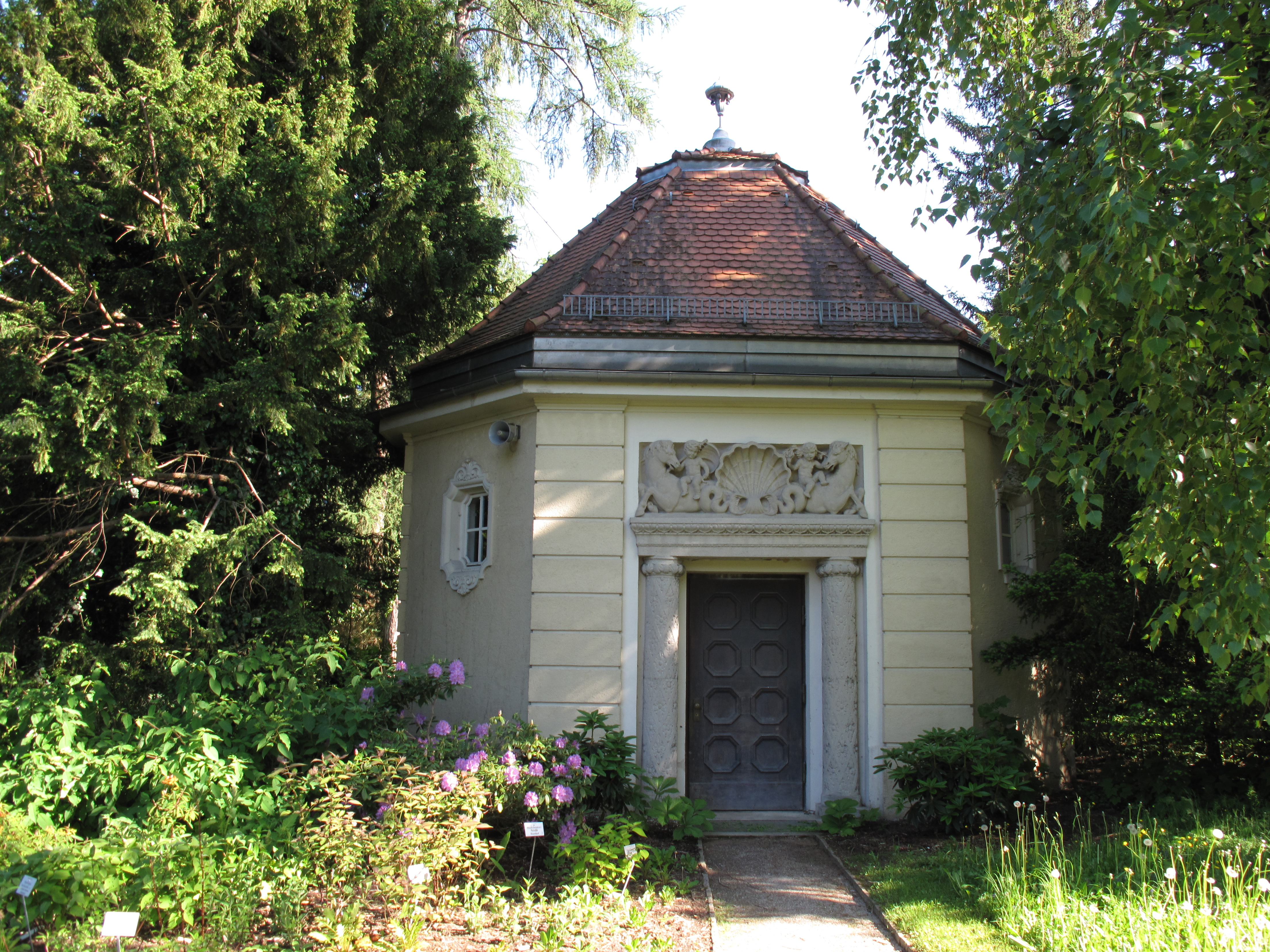 Botanic Garden Munich (Nymphenburg), Pavilion